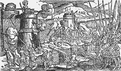 Silken Thomas (aka Thomas FitzGerald, 10th Earl of Kildare) attacks Dublin Castle